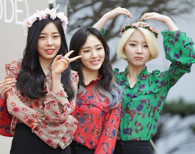 Ladies' Code at a fansign in Shinsegae, March 19, 2016.